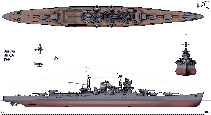 IJN Suzuya in her 1944 state of construction.